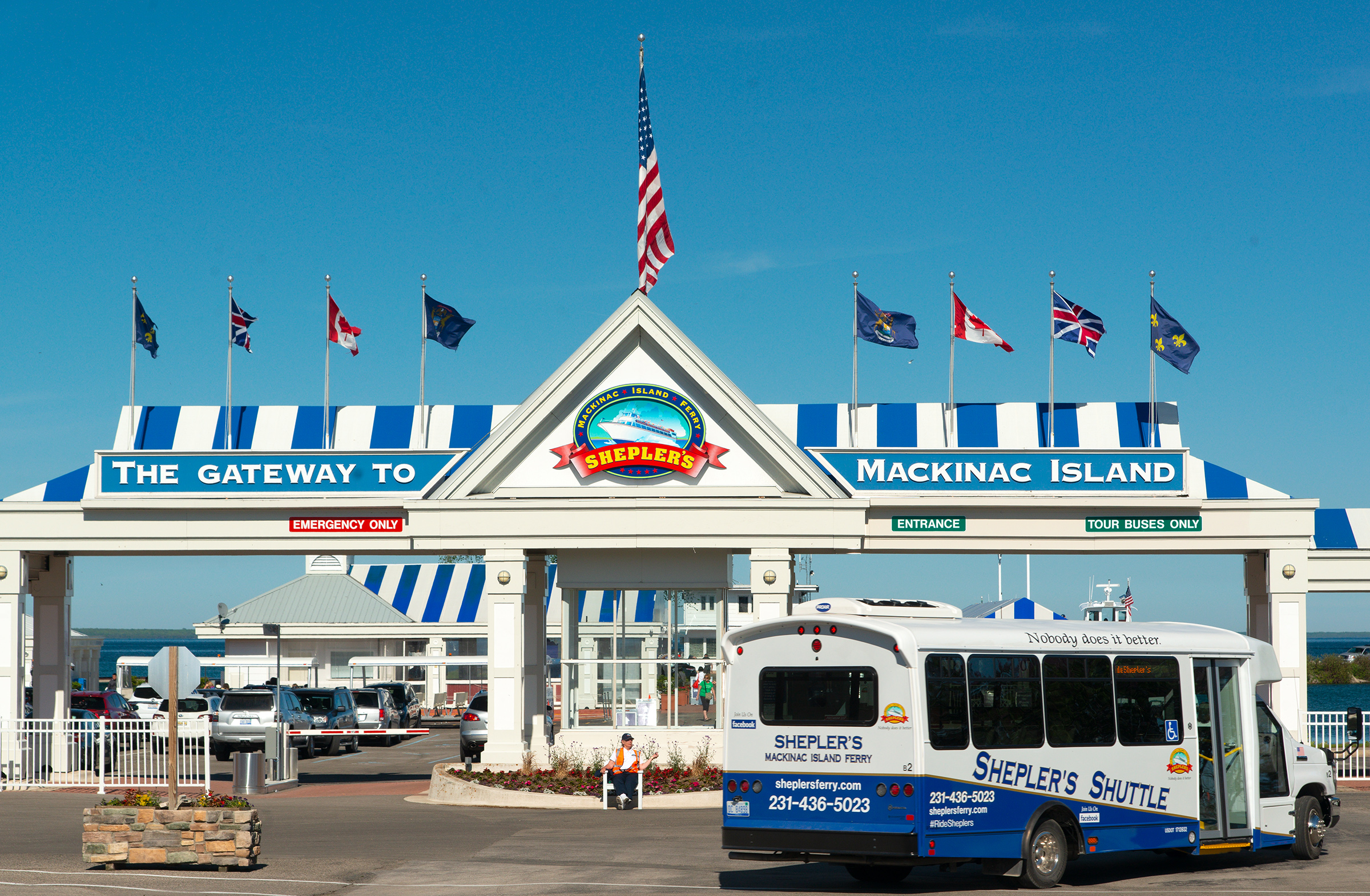 Shepler's ferry dock and shuttle bus, Mackinaw City